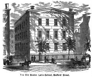 Boston Latin School, Bedford St., Boston MA